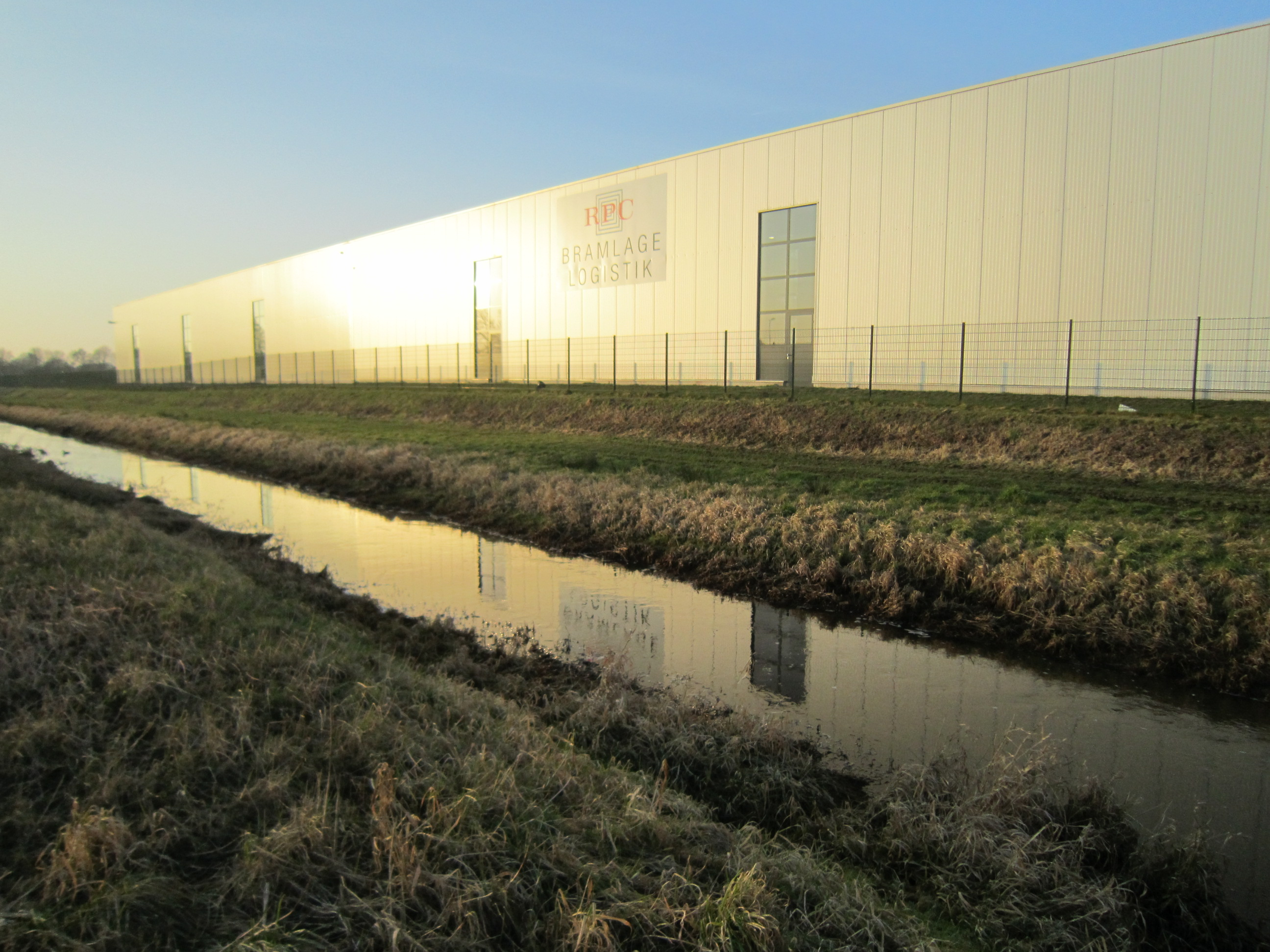 Creek "Hopener Mühlenbach" in Dinklage. In the background a warehouse of RPC Bramlage